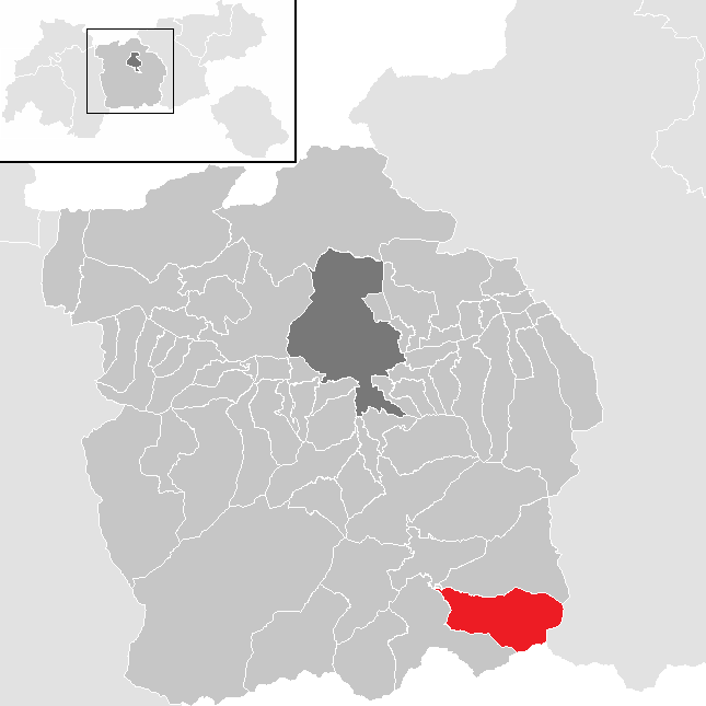 District Innsbruck Land